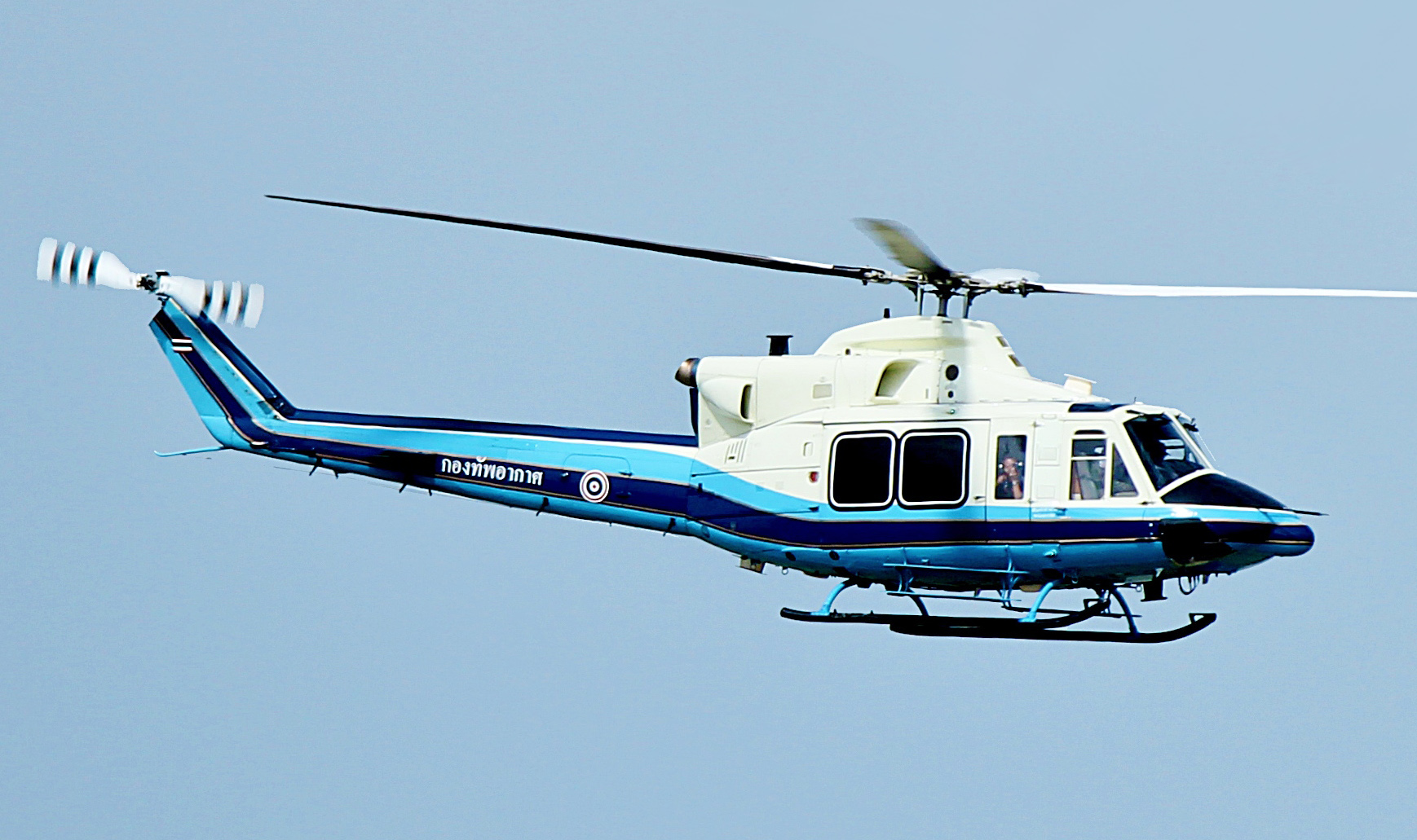 Royal Thai Air Force Bell 412